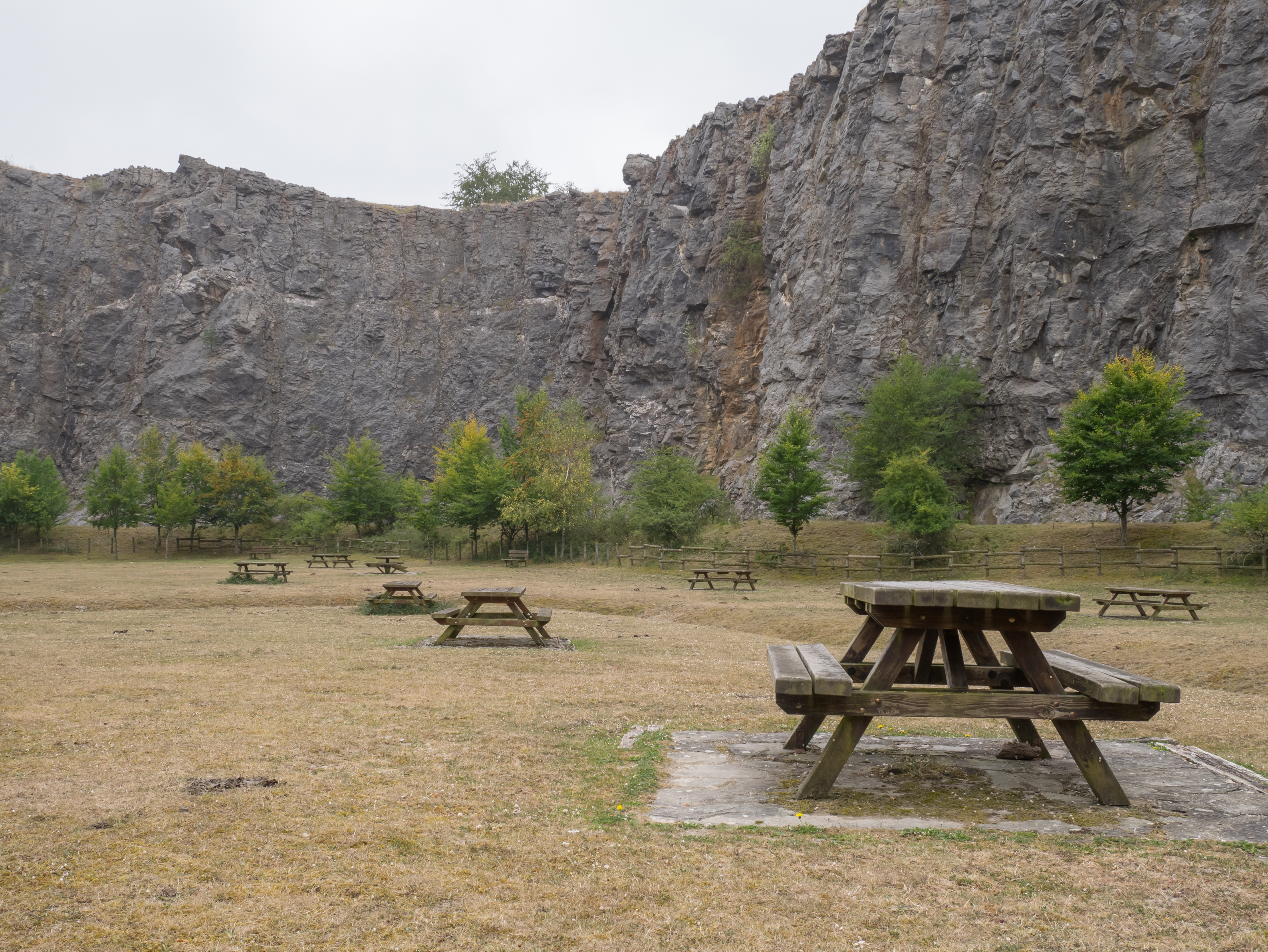 Picnic site at the Murúa quarries. Álava, Basque Country, Spain